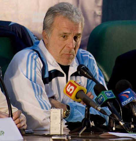 Eric Gerets